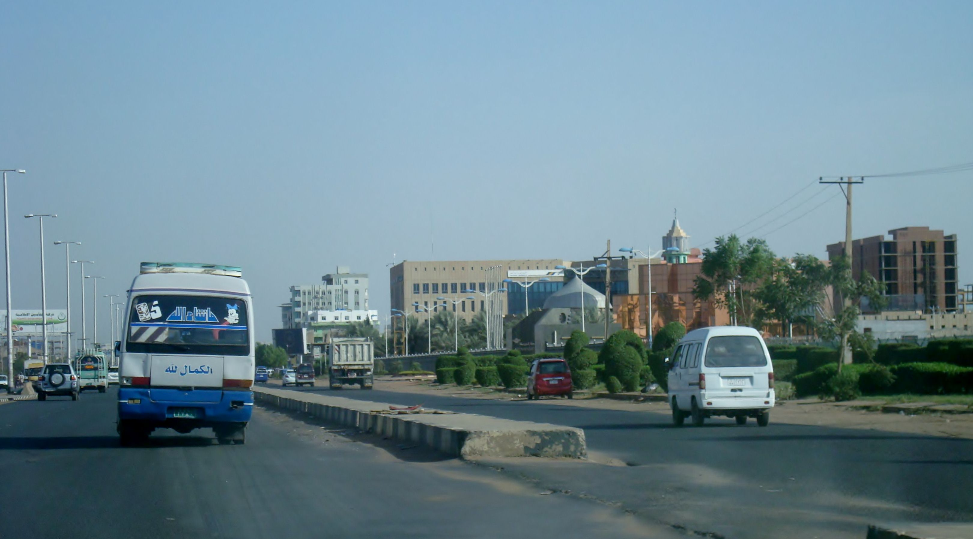 Al Obeid ... Khartoum